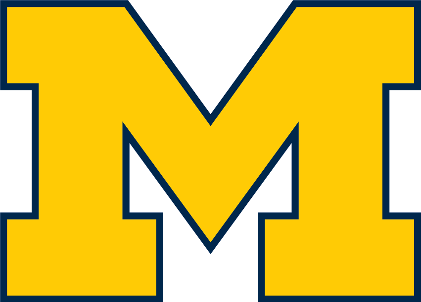 Athletics logo for the University of Michigan.